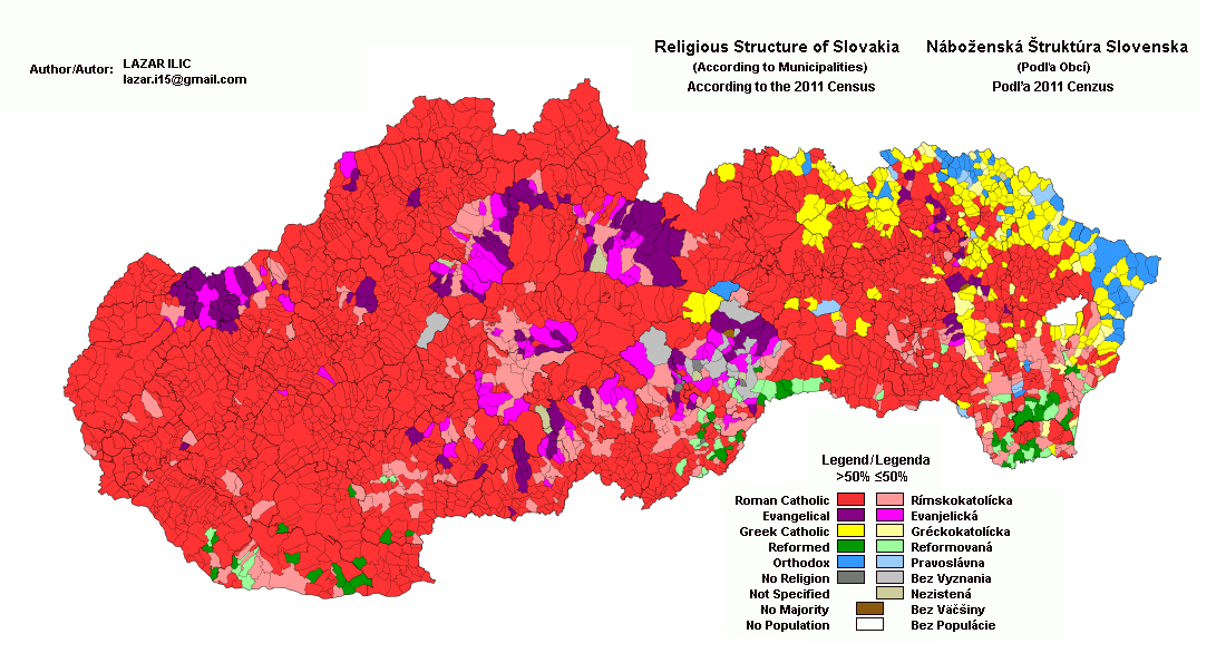 This is a map of Slovakia showing the religious structure according to the 2011 census.